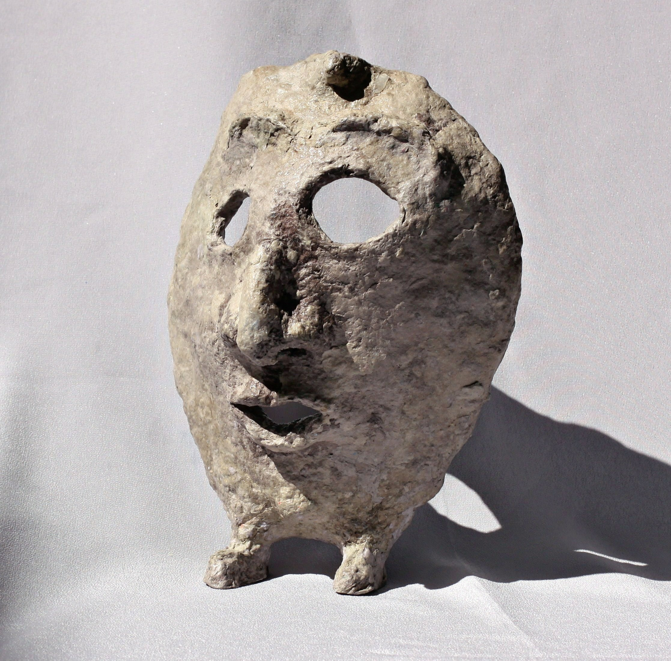 paper mache mask with feet, 3/4 view with grey background